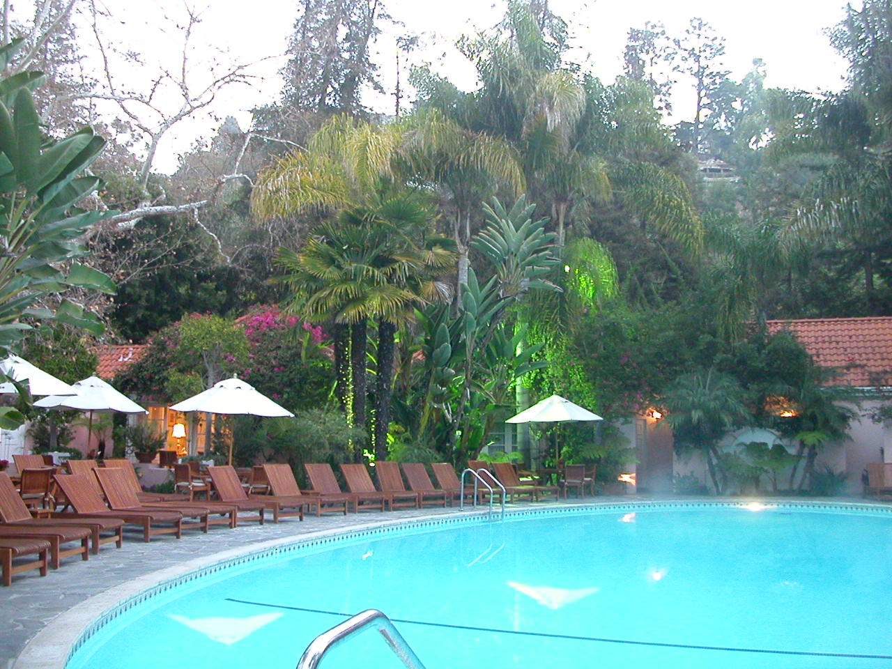 Swimming pool and gardens at Hotel Bel Air in Los Angeles.